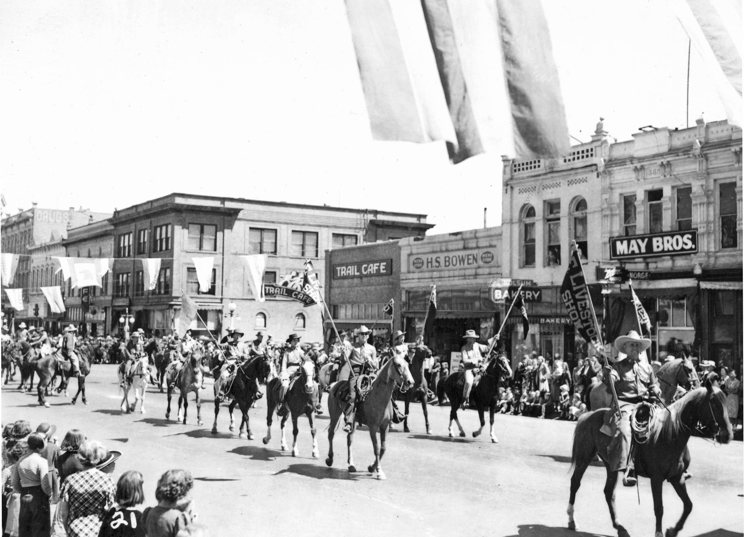 Original Collection: Item Number: You can find this image by searching for the item number by clicking here. Want more? You can find more digital resources online. We're happy for you to share this digital image within the spirit of The Commons; however, certain restrictions on high quality reproductions of the original physical version may apply. To read more about what “no known restrictions” means, please visit the Special Collections & Archives website. or contact staff at the OSU Special Collections & Archives Research Center for details.